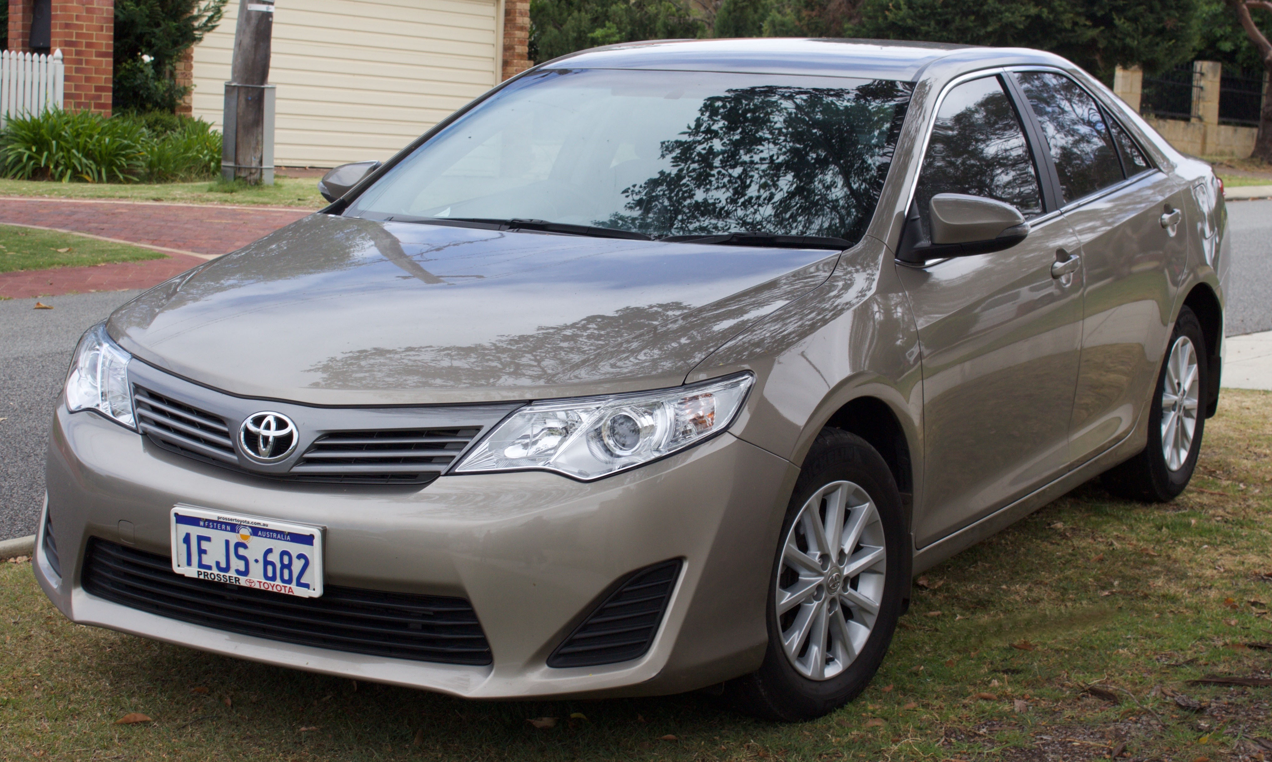 2013 Toyota Camry (ASV50R) Altise sedan. Photographed in Nedlands, Western Australia, Australia